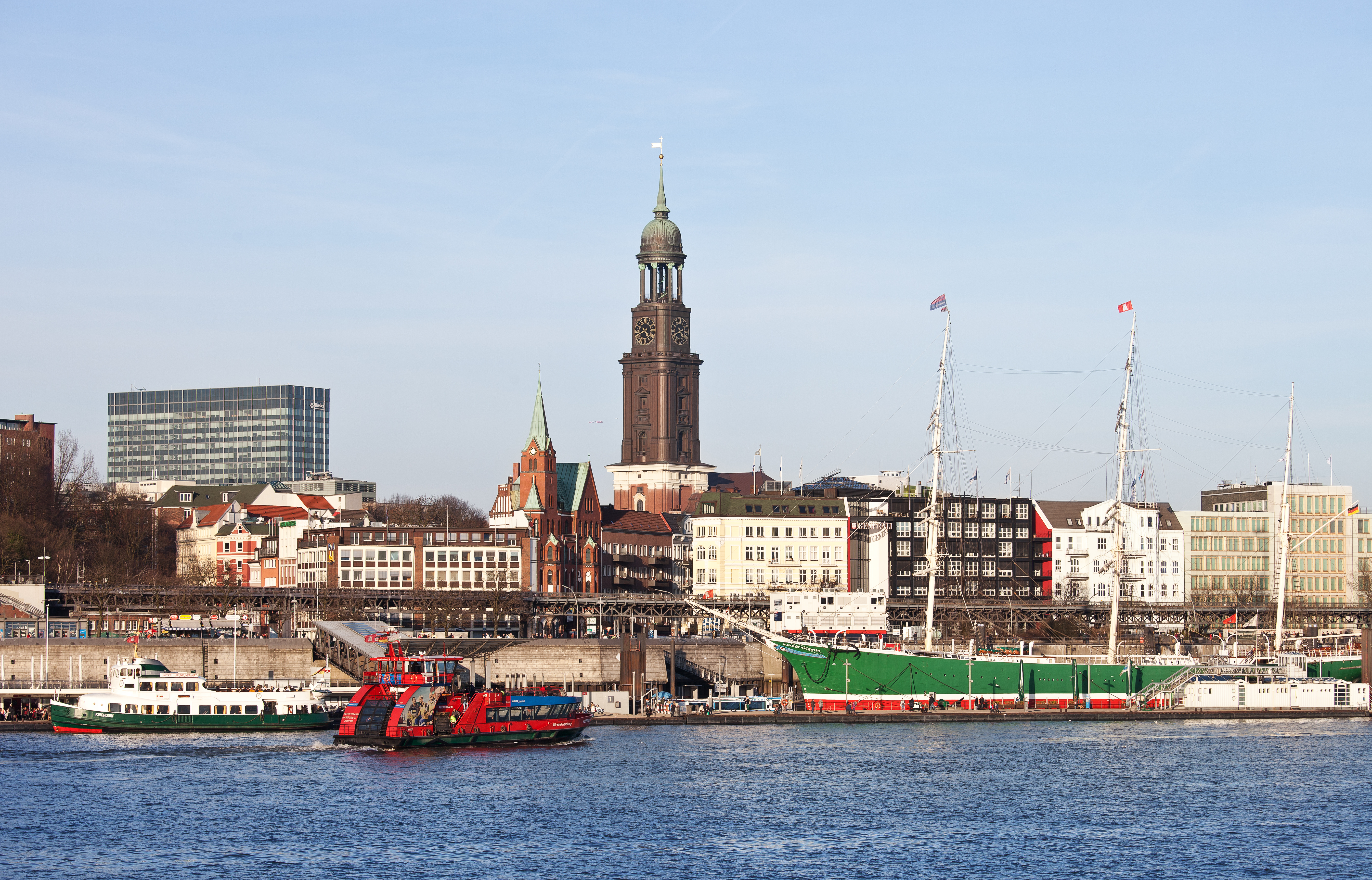 Elbe, Landing Stages und St. Michael's Church in Hamburg, Germany